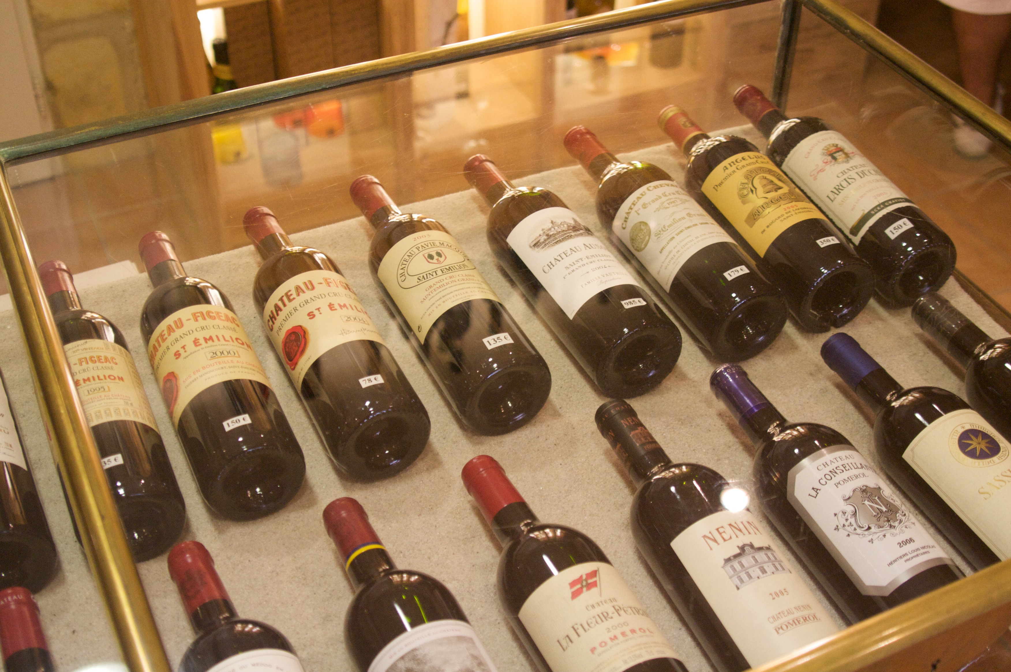 An assortment of French wine from the Saint Émilion and Pomerol wine regions on the right bank of Bordeaux